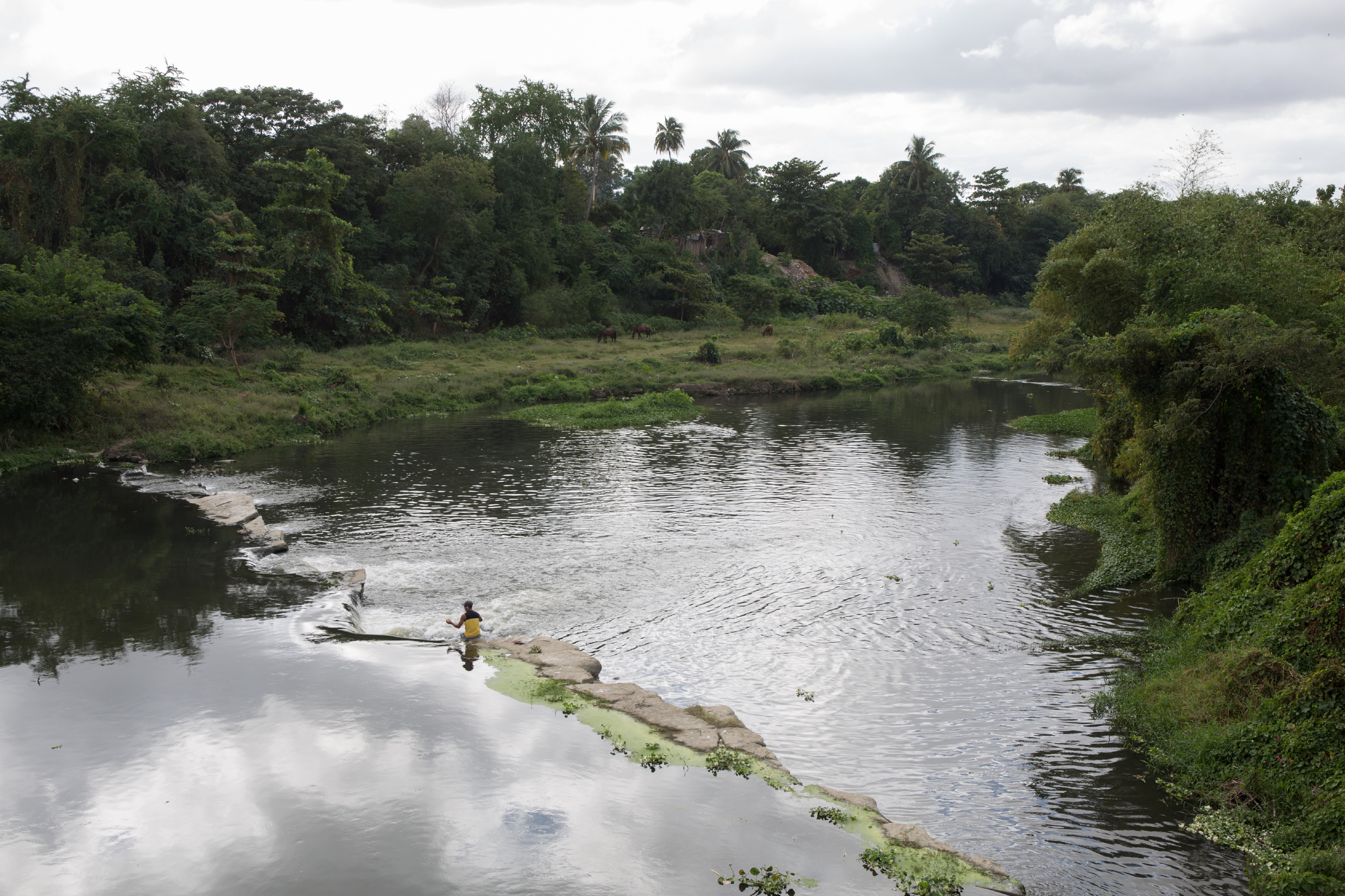 Guantánamo provicial capital, Rio Guaso